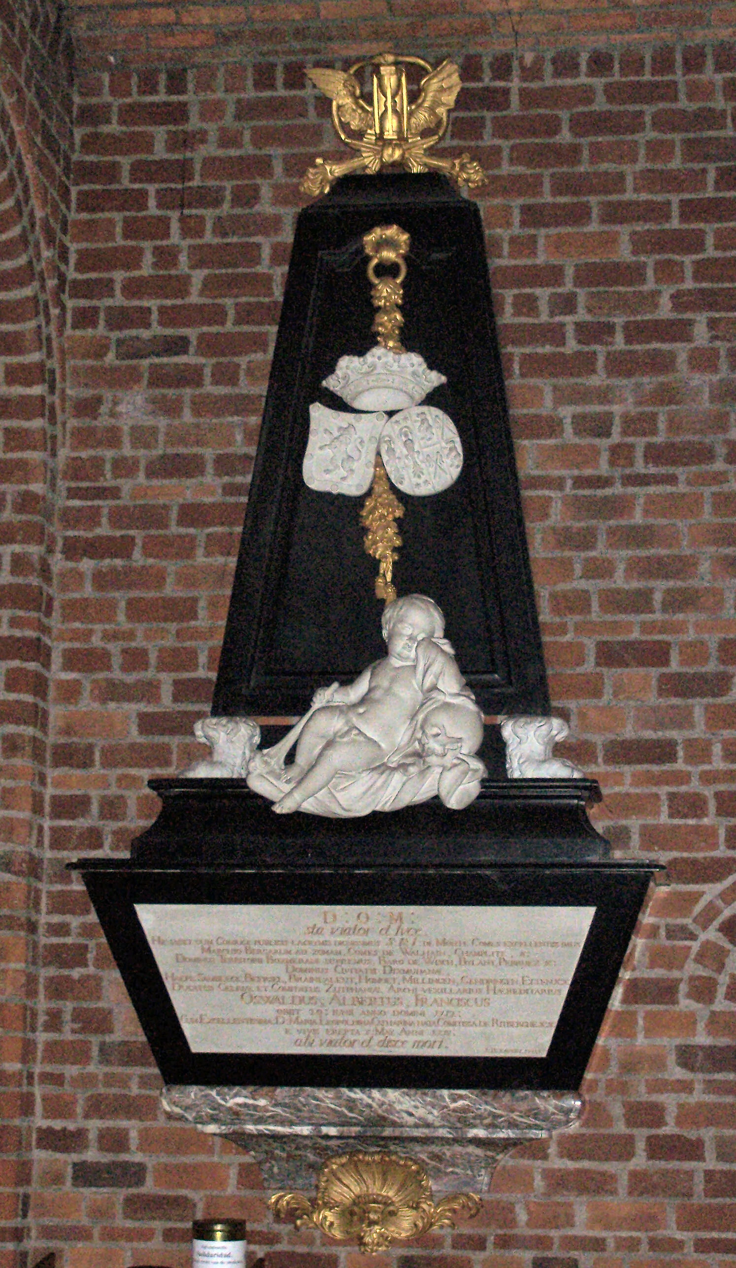 The Thomb of Earl Oswald III van den Bergh